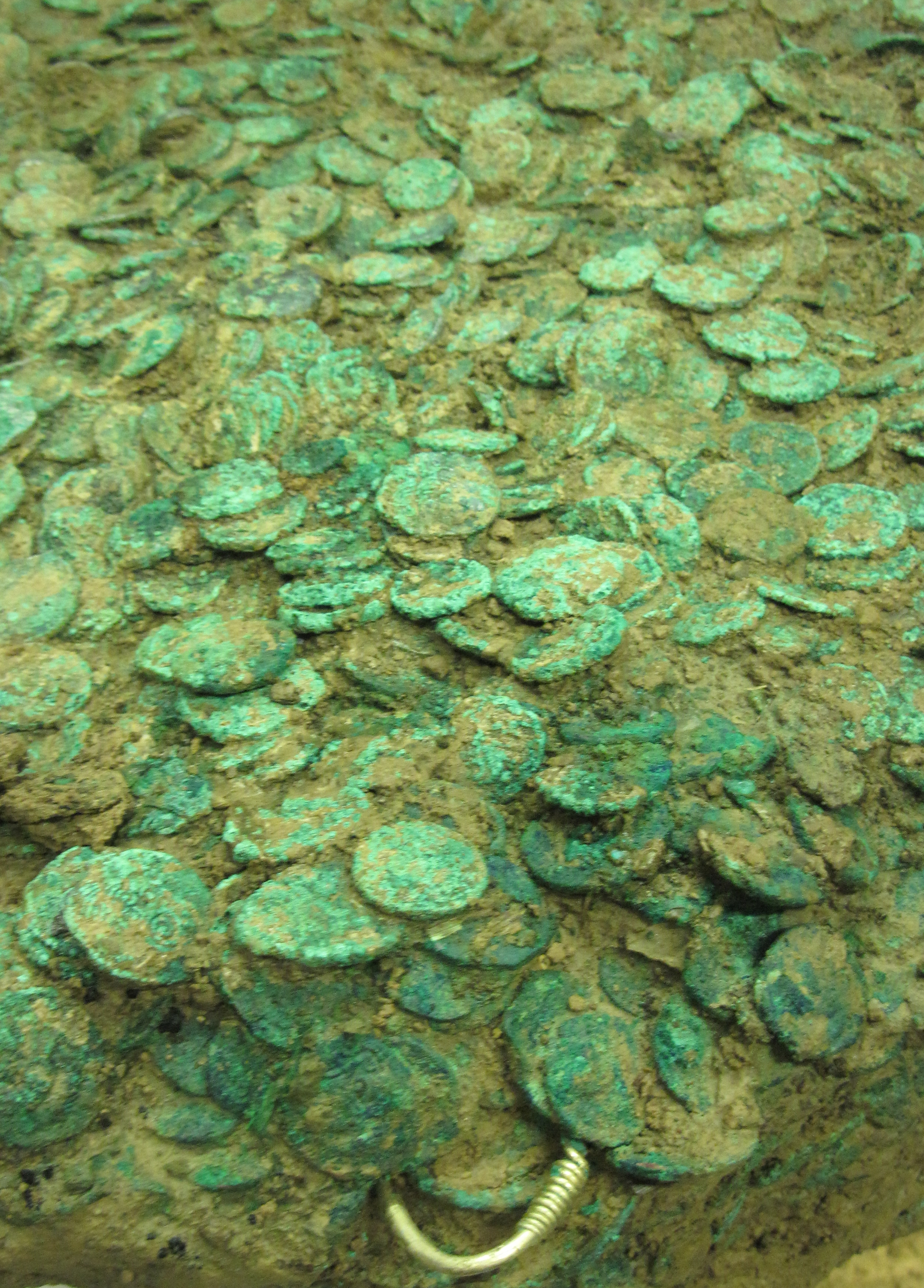 Grouville Hoard, Jersey, while undergoing cleaning and investigation 2012 Nrf: L'anichette dé Grouville, 2012